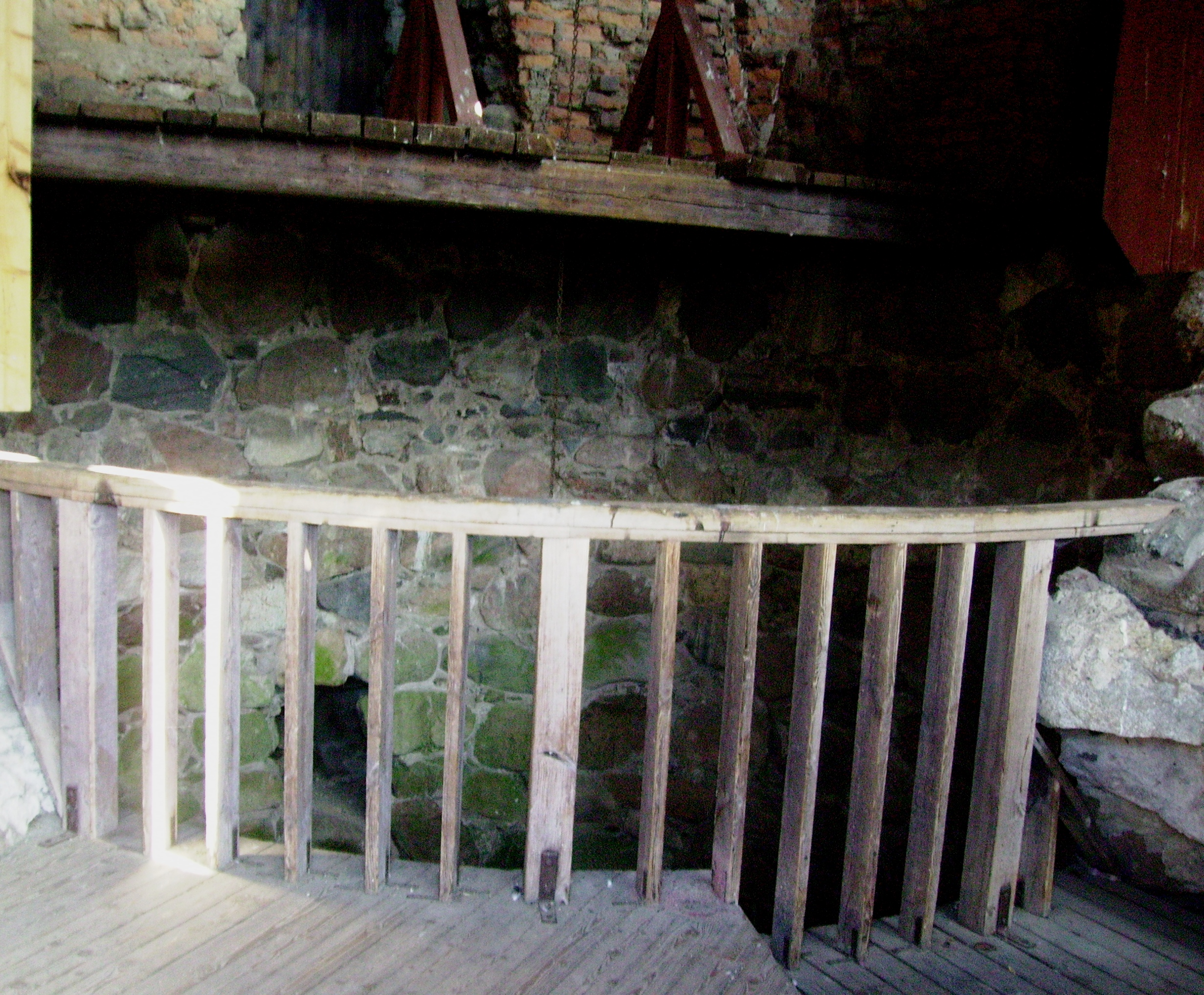 Picture of dungeon in Nyköpingshus